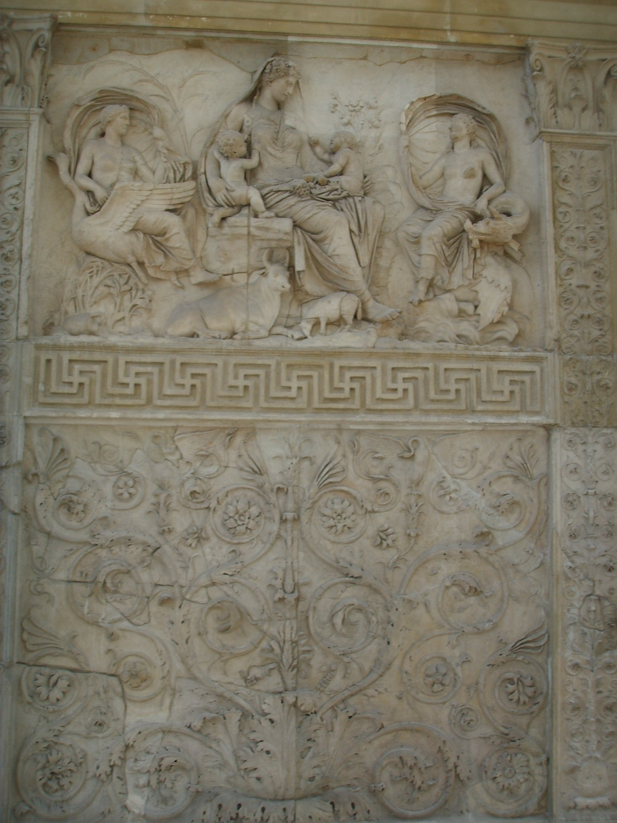 Ara Pacis, eastern side in Rome, Italy For more information: (English)